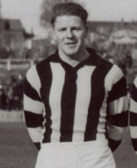 Photo of Ted Ryan in 1943